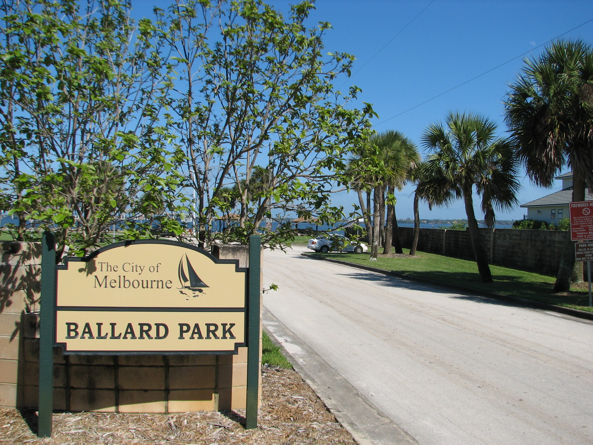 Sign at entrance to Ballard Park, 924 Thomas Barbour Drive, Melbourne, Florida. Gary Howell